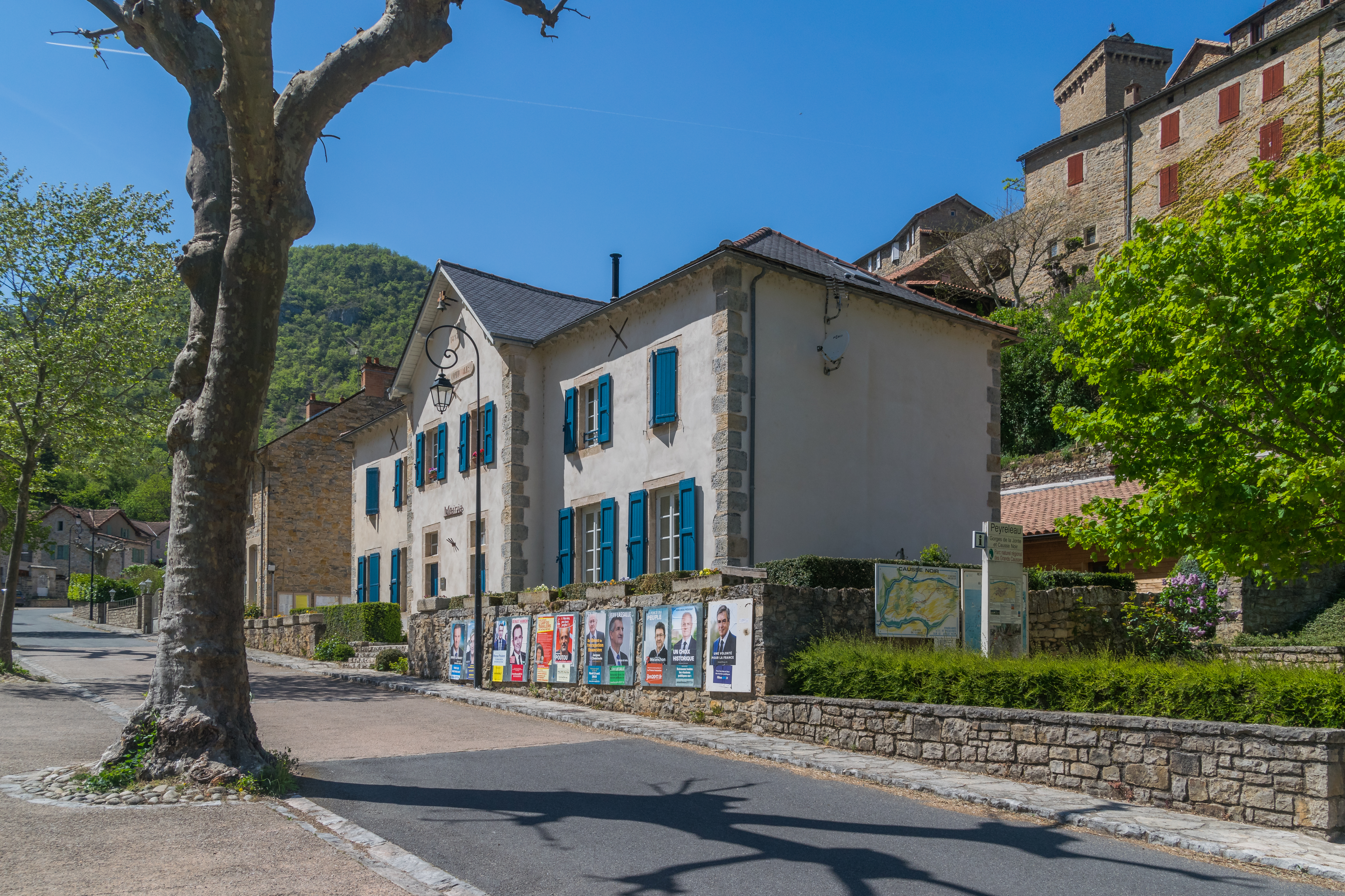 Town hall of Peyreleau, Aveyron, France